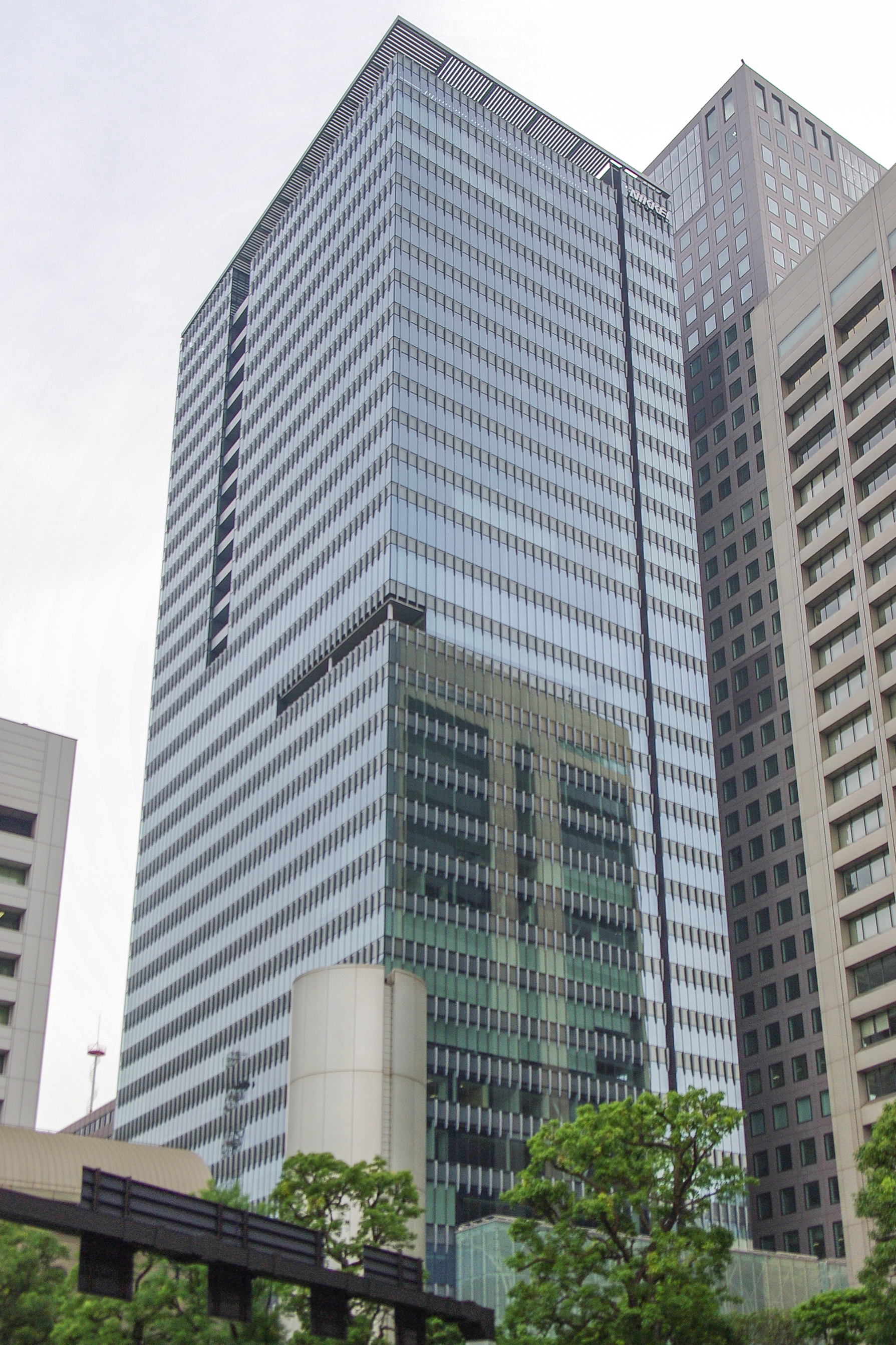 Photograph of Nikkei Building, Tokyo Head Office of Nikkei Inc., in Otemachi, Chiyoda, Tokyo, Japan.